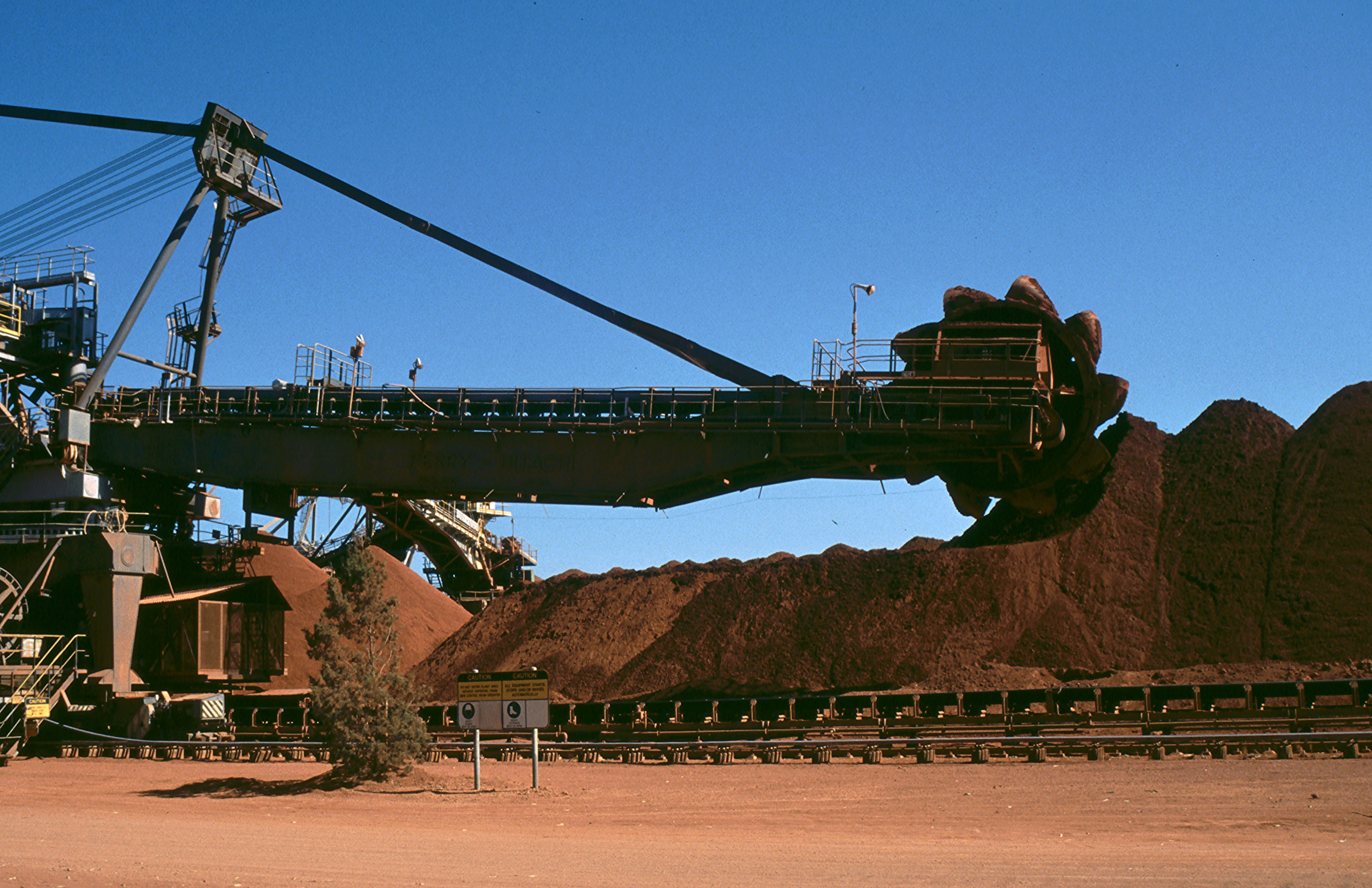 Huge mining equipment at the Comalco bauxite mine; Weipa, Cape York Peninsula, Queensland, Australia. Comalco is involved in all five stages of aluminum production: mining bauxite, refining it to alumina, smelting alumina to aluminum, processing aluminum, recycling aluminum.